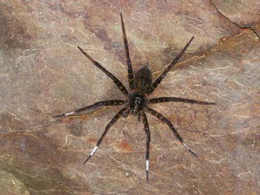 female Dolomedes orion from Okinawa.